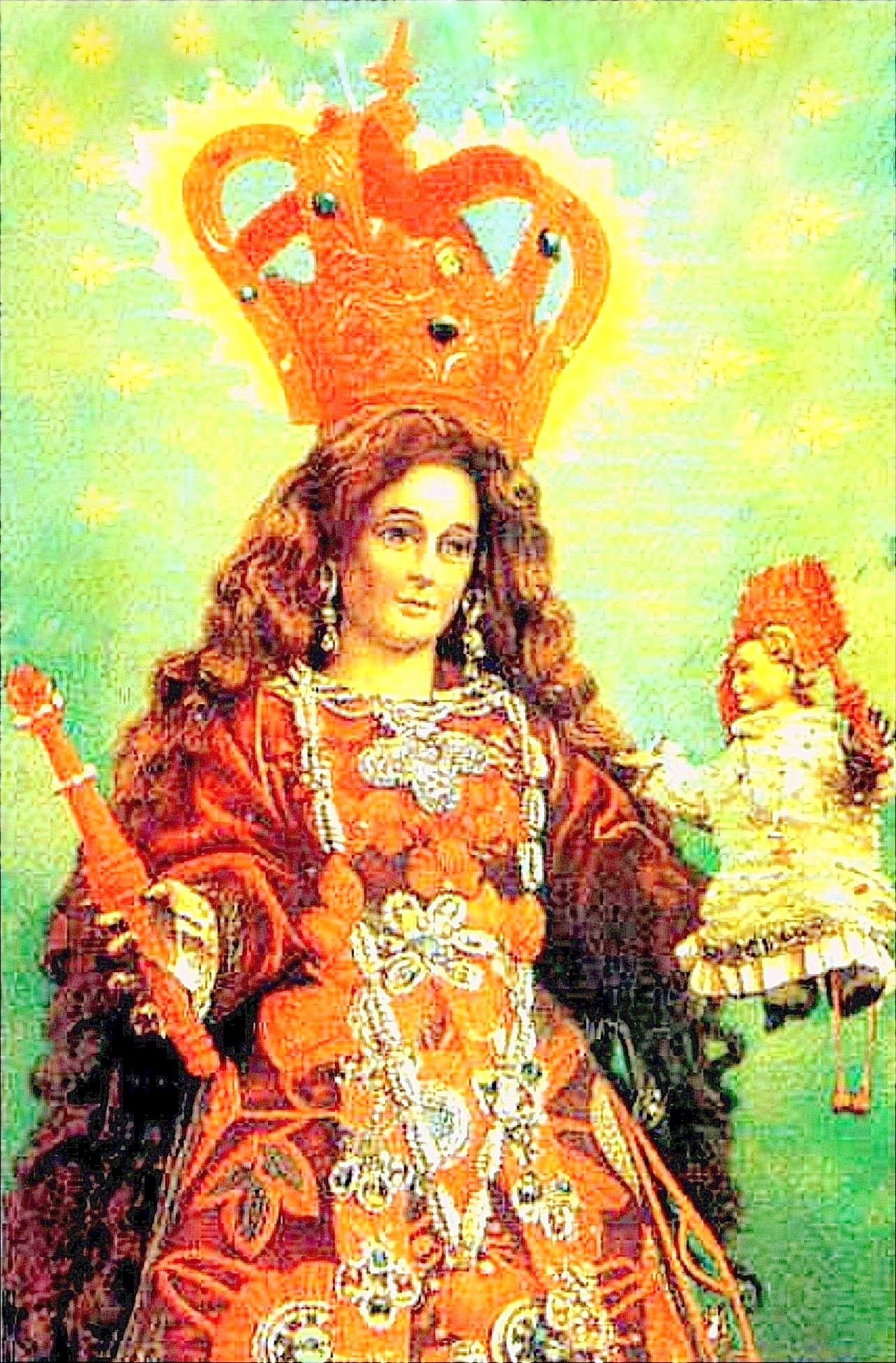 Image of our lady of the Swan, graphic representation sculpted in the 16th century.